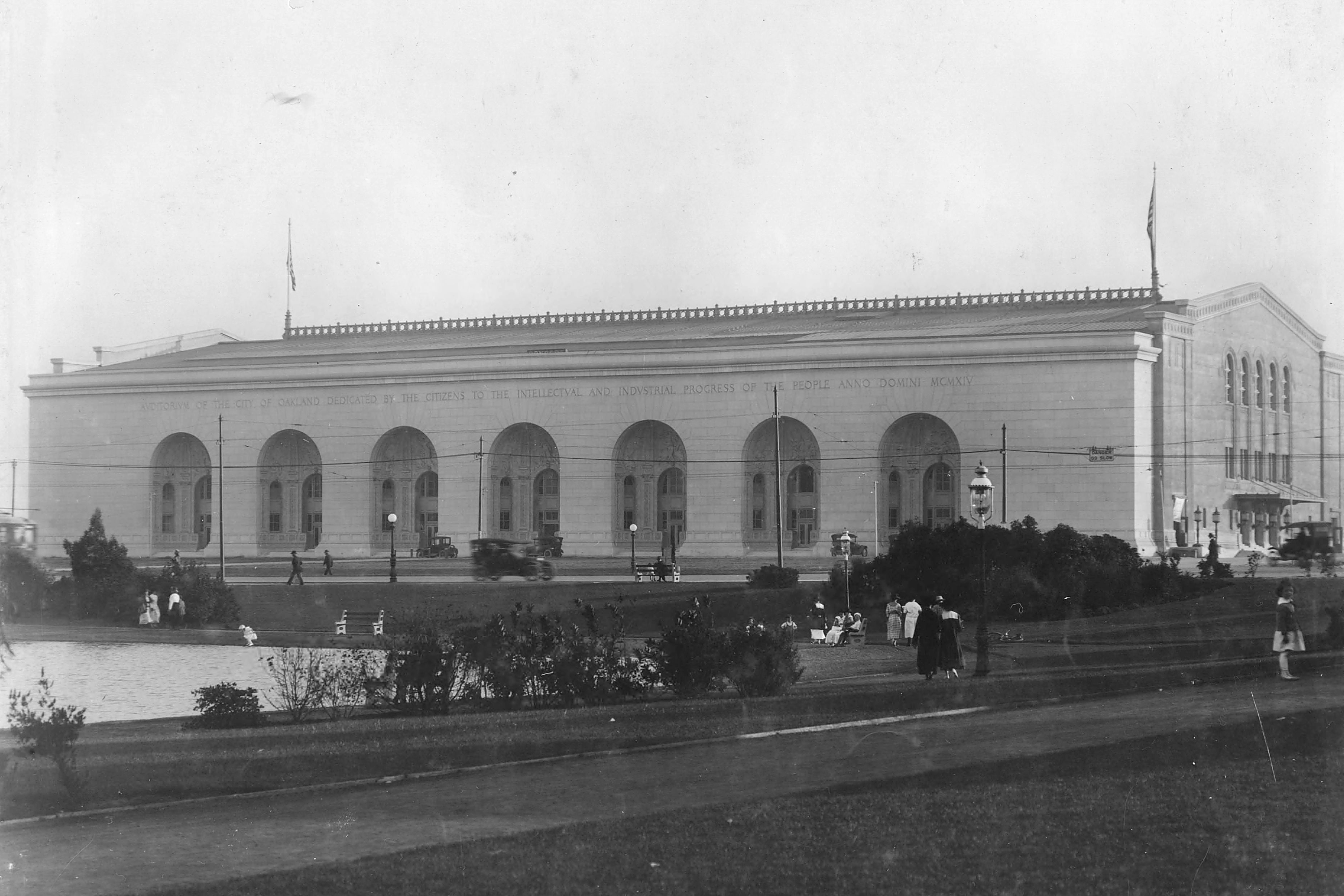 The Kaiser Convention Center building in it's early years. From New or greatly enlarged industrial establishments of Oakland and East Bay cities, an album promoting Oakland and East Bay industrial facilities and real estate, produced by the Oakland Chamber of Commerce. Caption: "The Oakland Auditorium, a building of steel, granite and concrete, erected by the City of Oakland. The structure is 198 x 400 feet, contains a complete theatre seating 1989 and an auditorium seating 8194, besides an art gallery, private ballroom, and many other meeting rooms. The Auditorium cost $1,000,000."